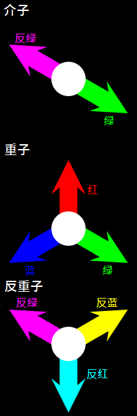 Hadrons always have zero total color charge. (annotations in simplified chinese)